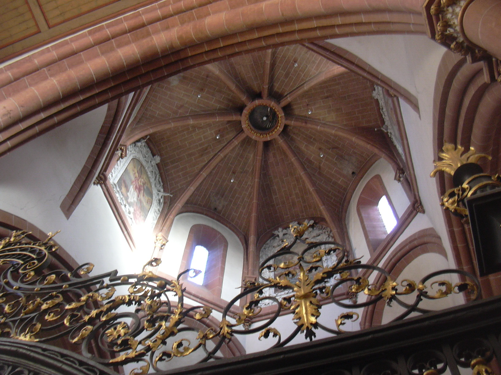 Seligenstadt, Einhard's Basilica, crossing tower